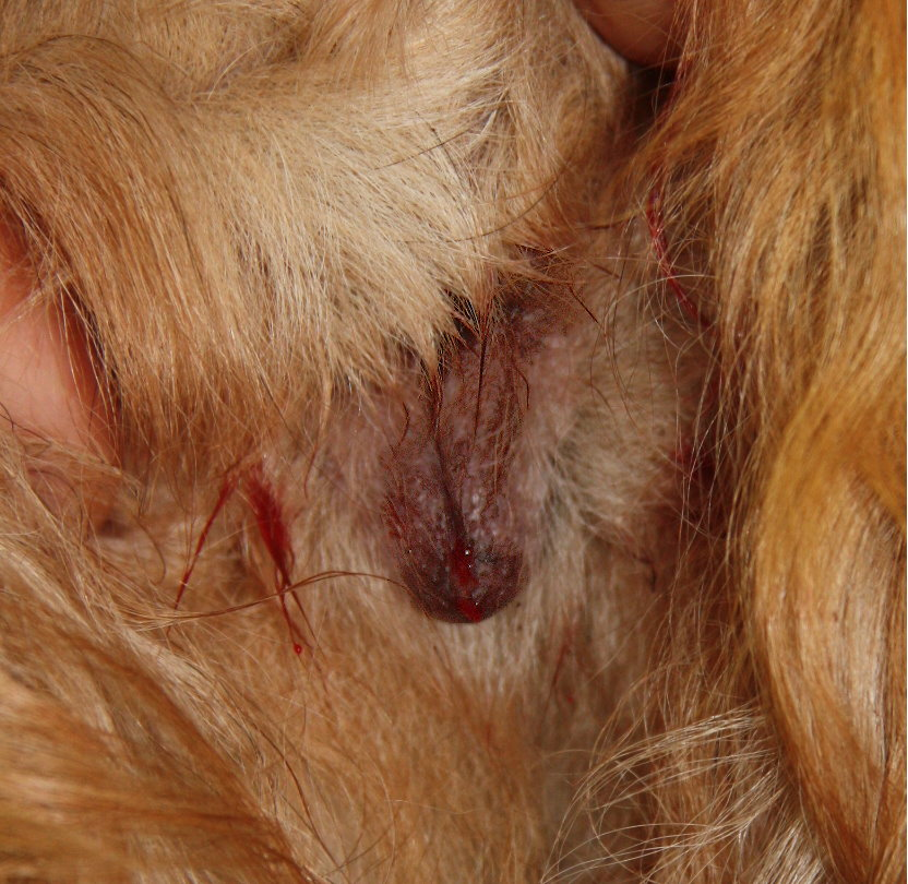 Vulva of a bitch in heat, proestrus